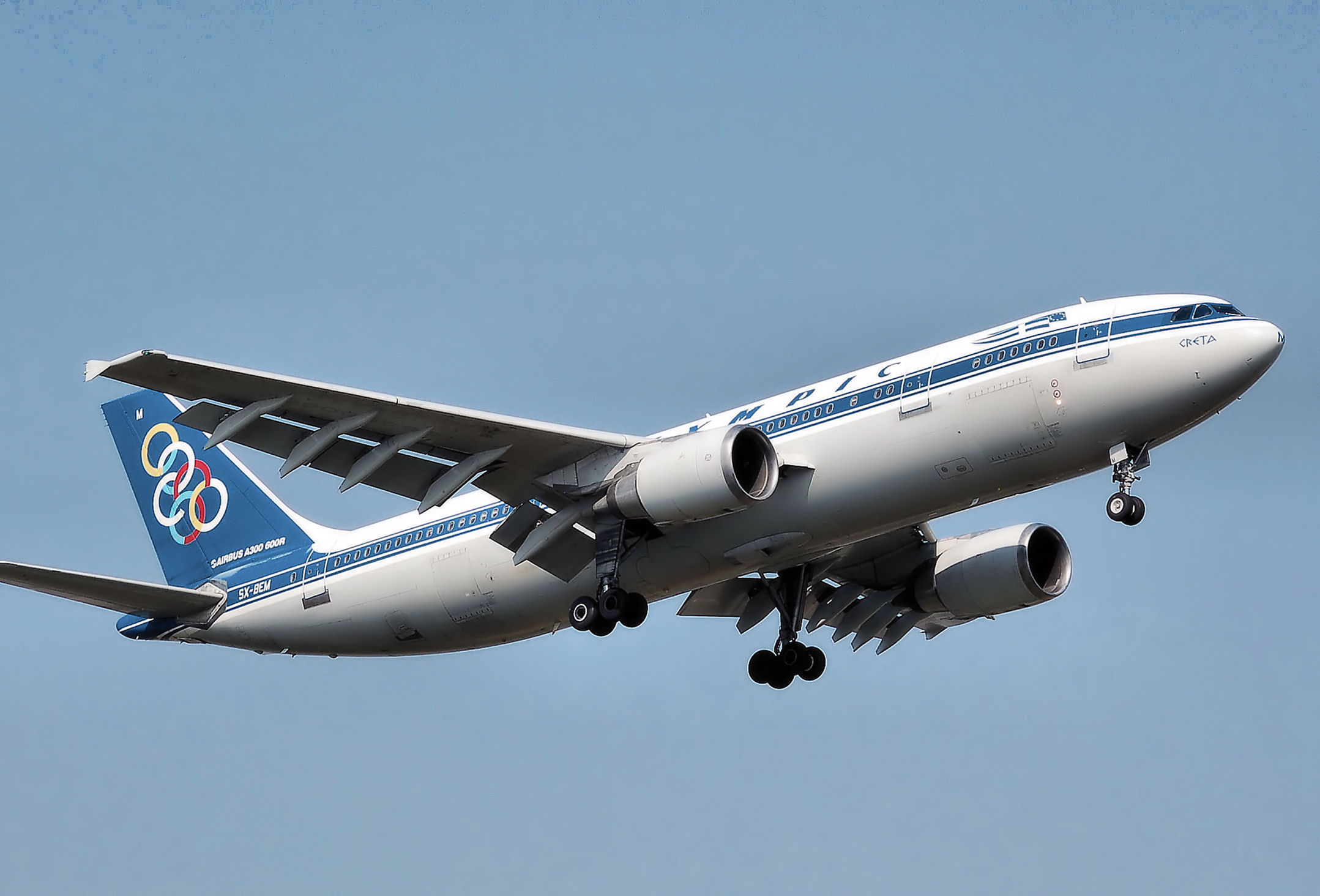 Olympic Airlines Airbus A300B4-600R (SX-BEM) landing at London Heathrow Airport.